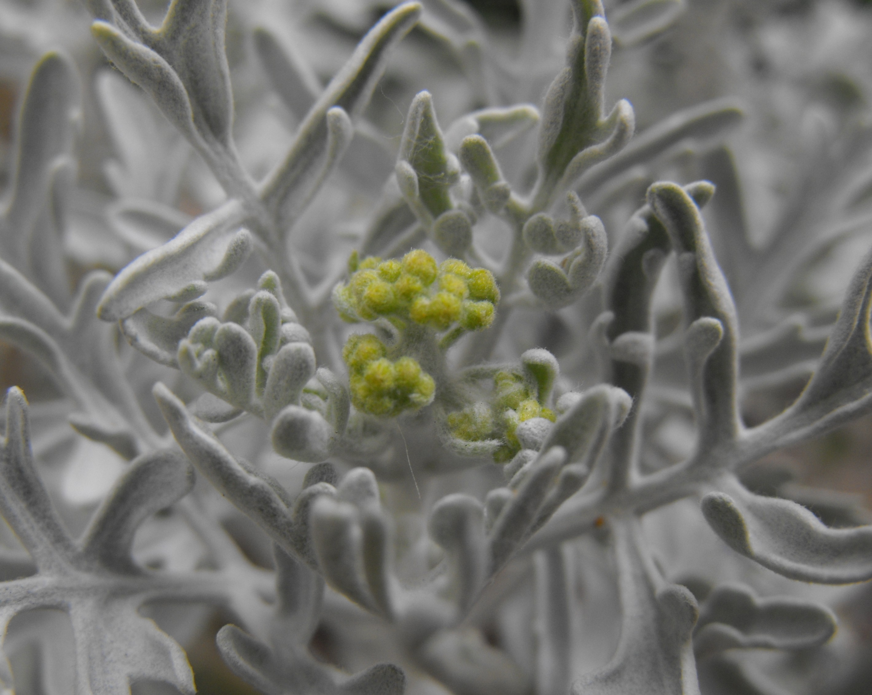 Perityle incana at Rancho Santa Ana Botanic Gardens in Claremont, California, USA. Identified by sign.